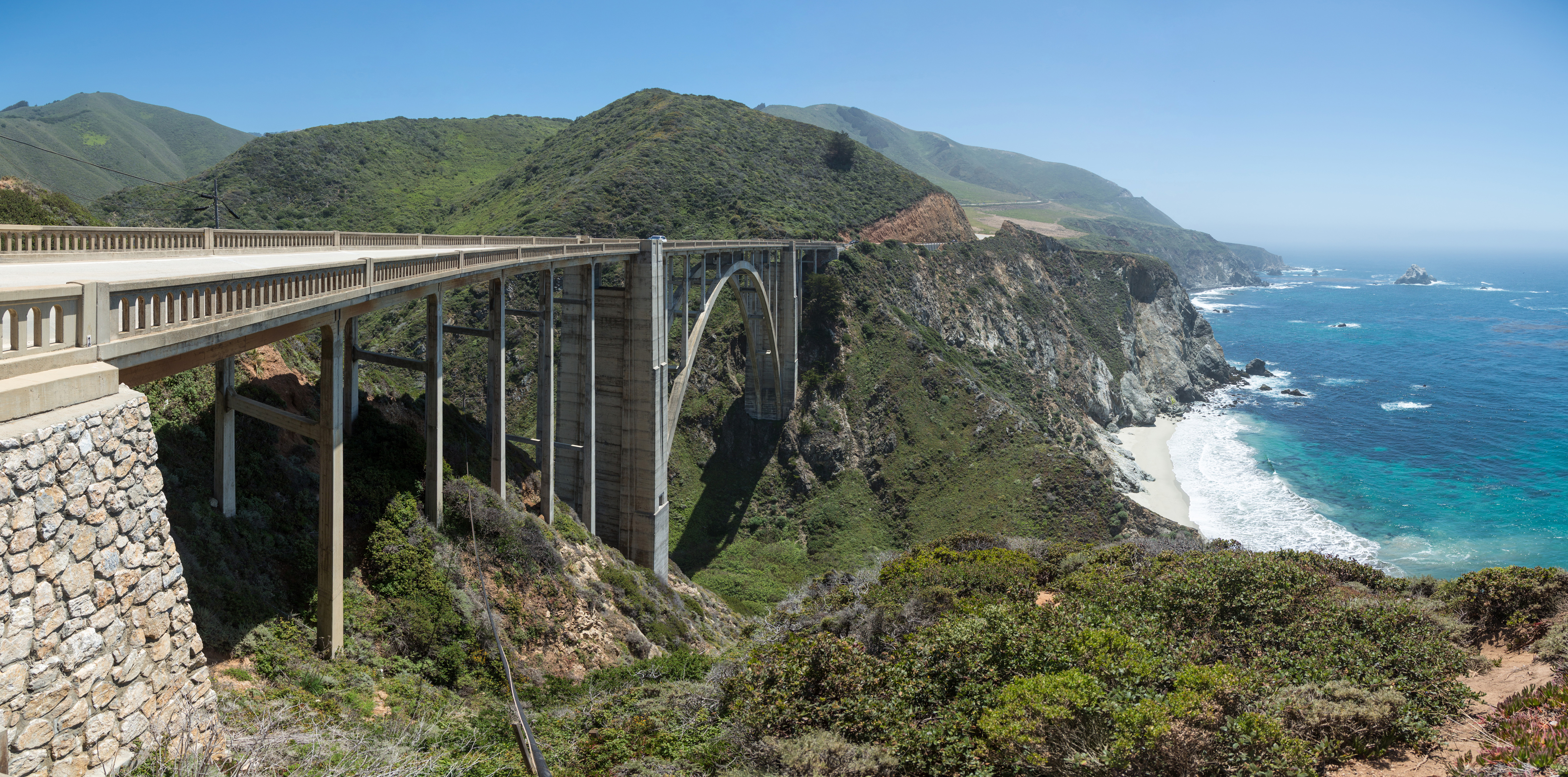 Bixby Creek Bridge, viewed from the northern side near Big Sur on the Central Californian Coast in the United States.